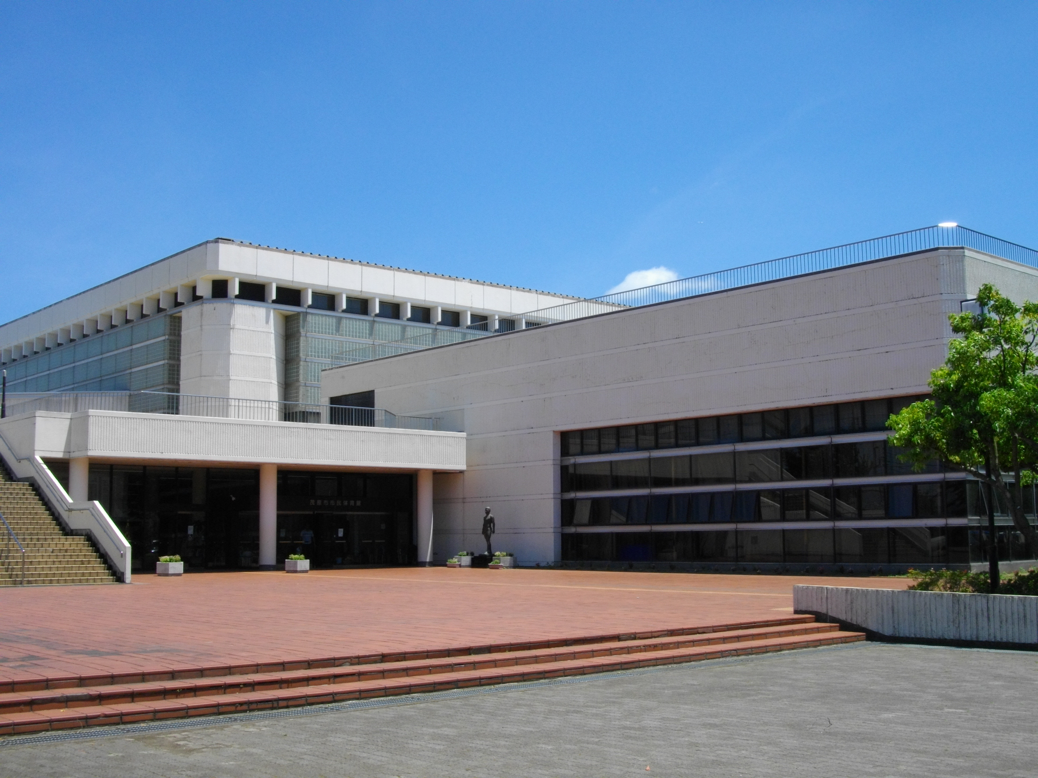 Mobara City Gymnasium